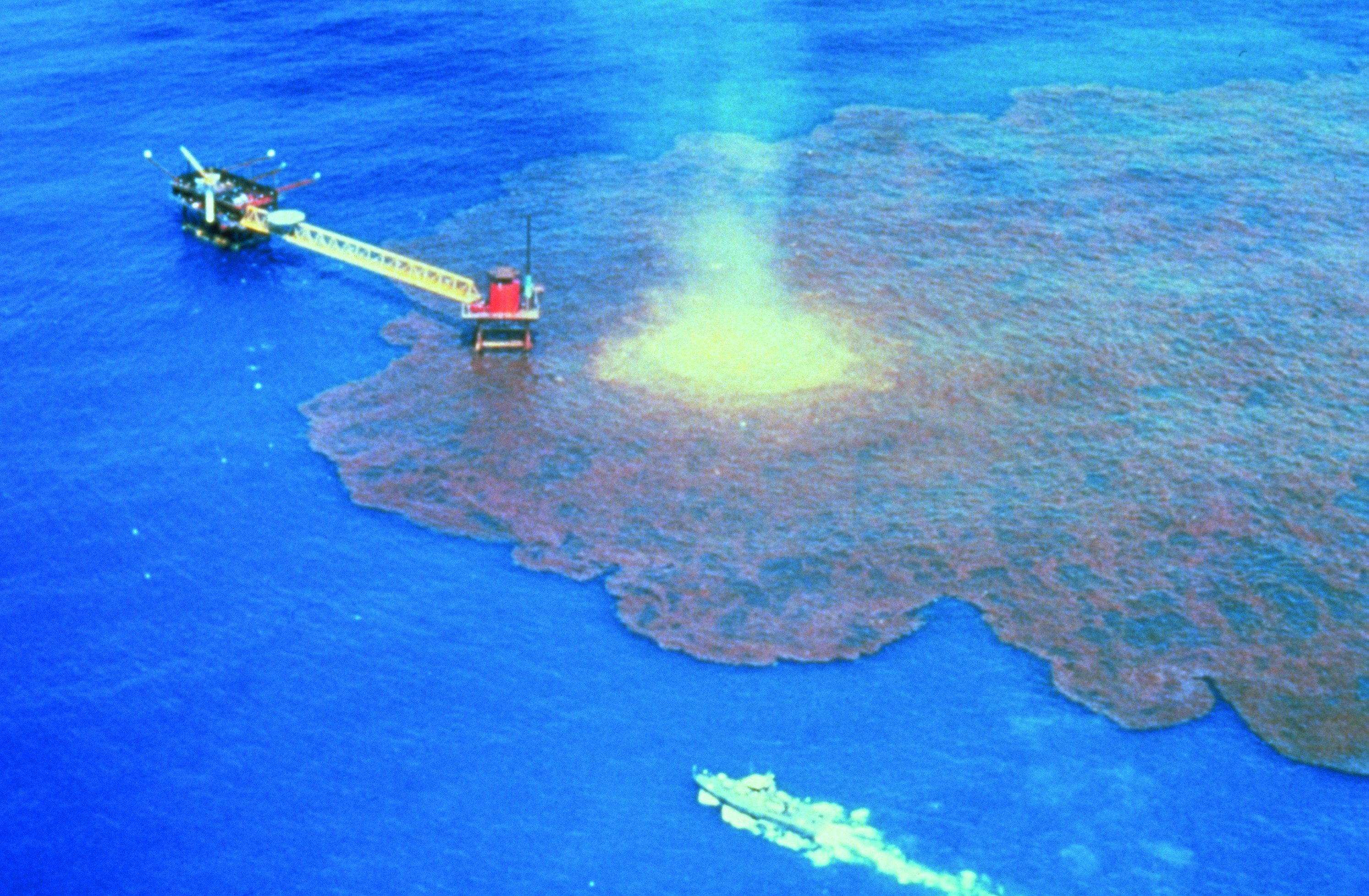 Ixtoc I oil spill. This spill was caused by a blownout oil well. The well ran wild for 9 months and spilled over 140 million gallons of oil into the Bay of Campeche. Mexico, Bay of Campeche. 1979 September circa.